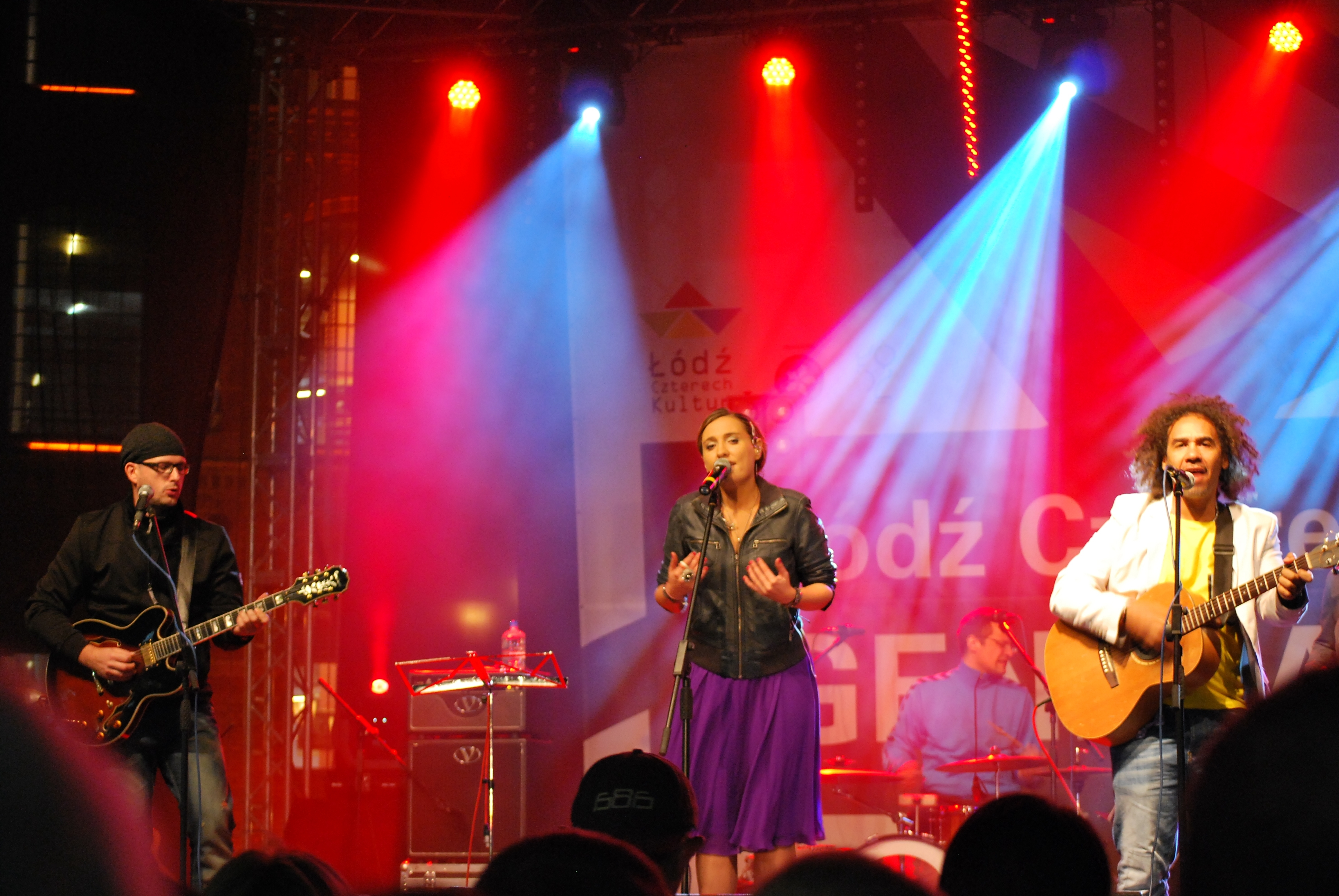 Mika Urbaniak, Łódź of Four Cultures Festival 2012